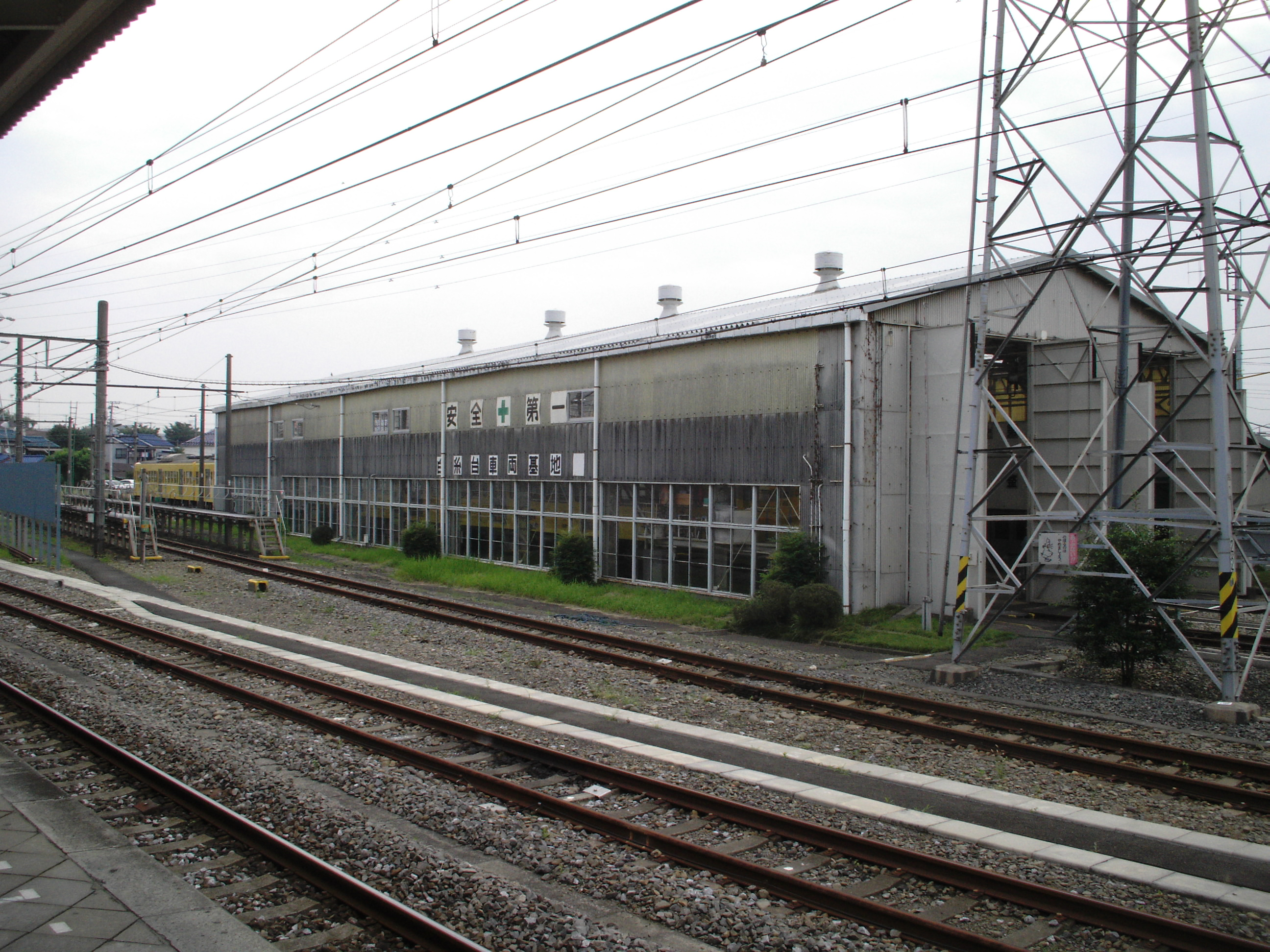 Seibu Railway Shiraitodai Depot in Tokyo, Japan